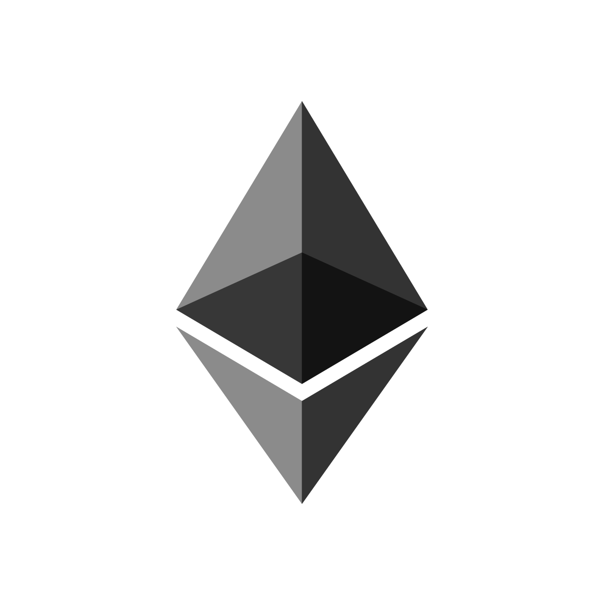 Ethereum new logo